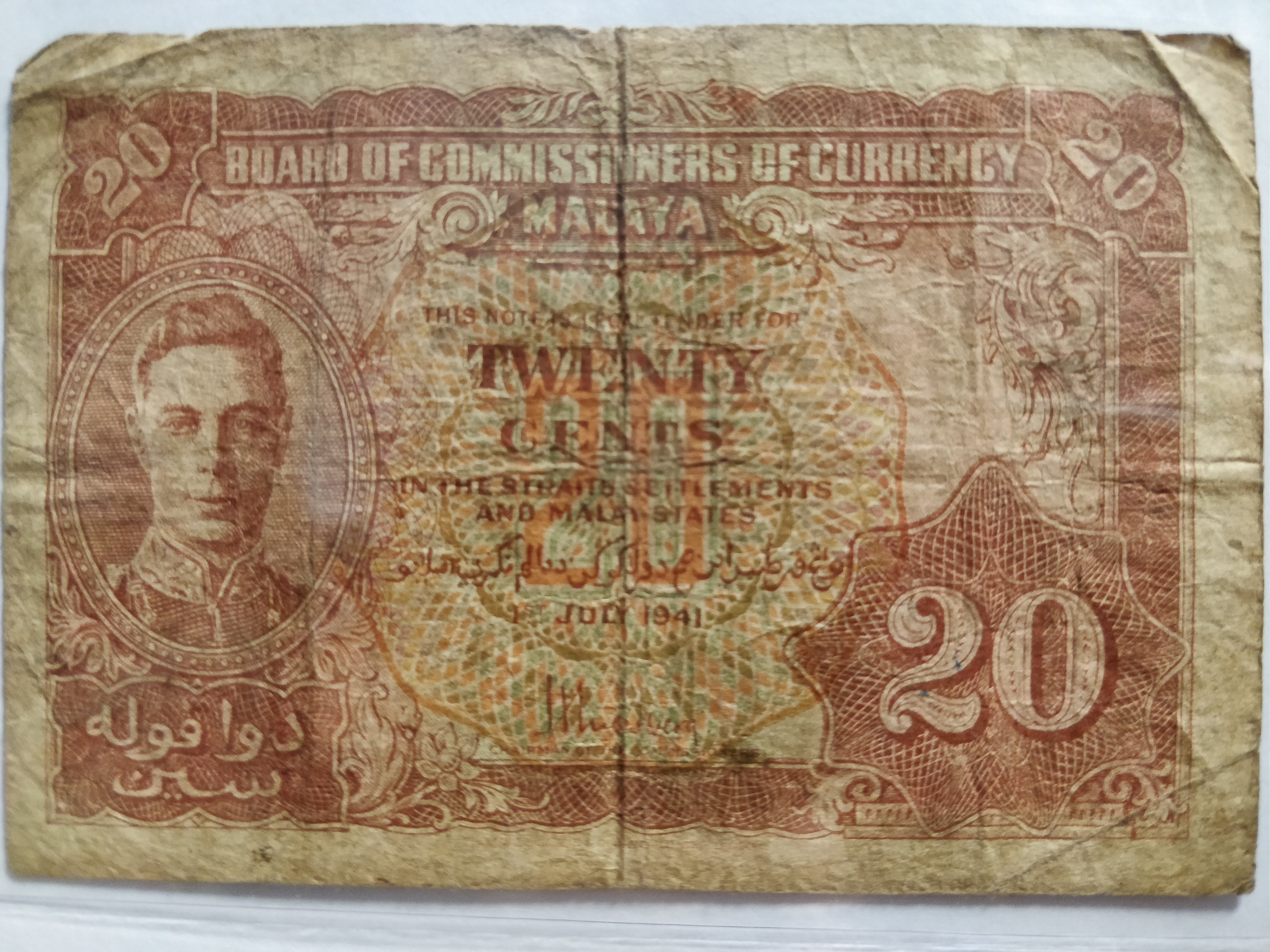 Malayan Dollar Note, 20 cent, Obverse 1st July 1941